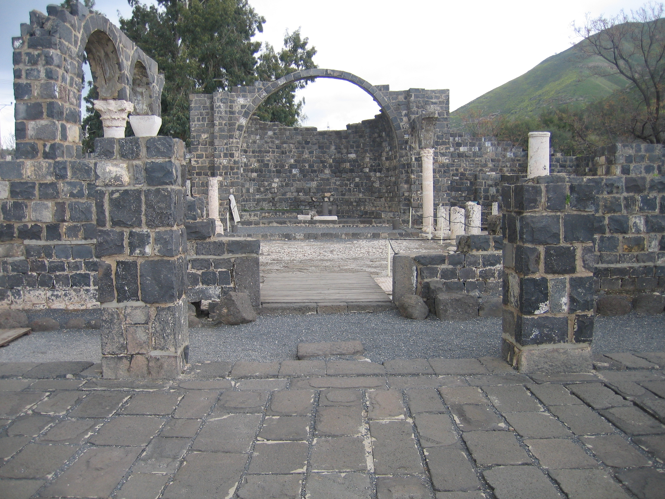 Kursi National Park